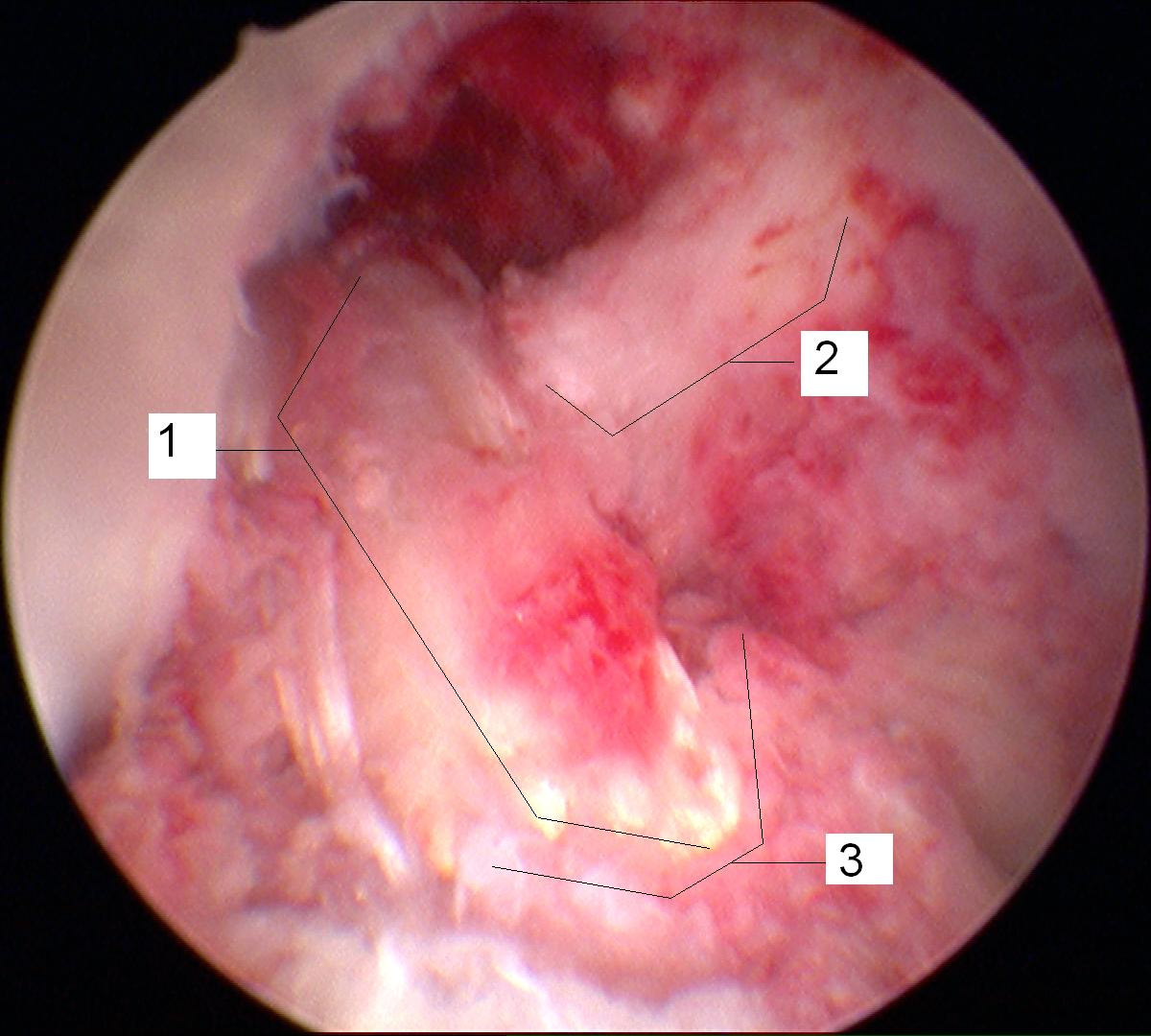 Arthroscopic reconstruction of the anterior cruciate ligament (ACL) of the right knee, at the end of the procedure.The tendon of the semitendinosus muscle was prelevated, folded and used as an autograft. It appears through the remnant of the injured original ACL. The autograft then courses upwardly and backwardly in front of the posterior cruciate ligament.